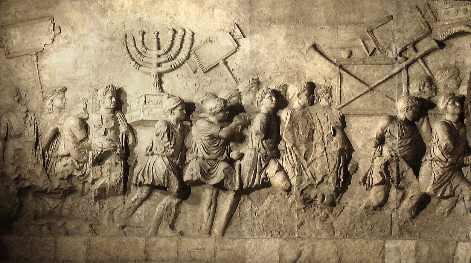 Roman Triumphal arch panel copy from Beth Hatefutsoth, showing spoils of Jerusalem temple.